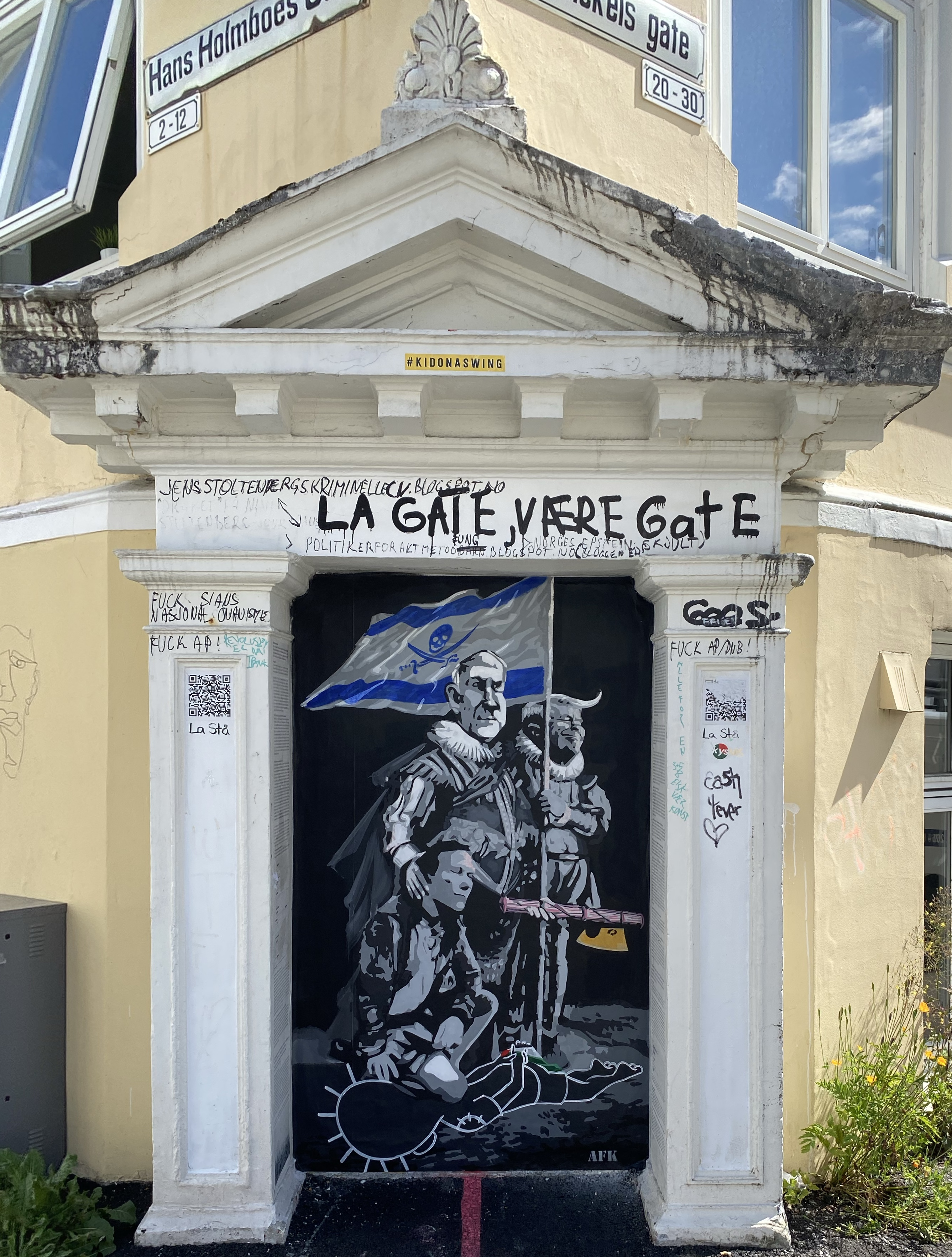 AFK Artwork